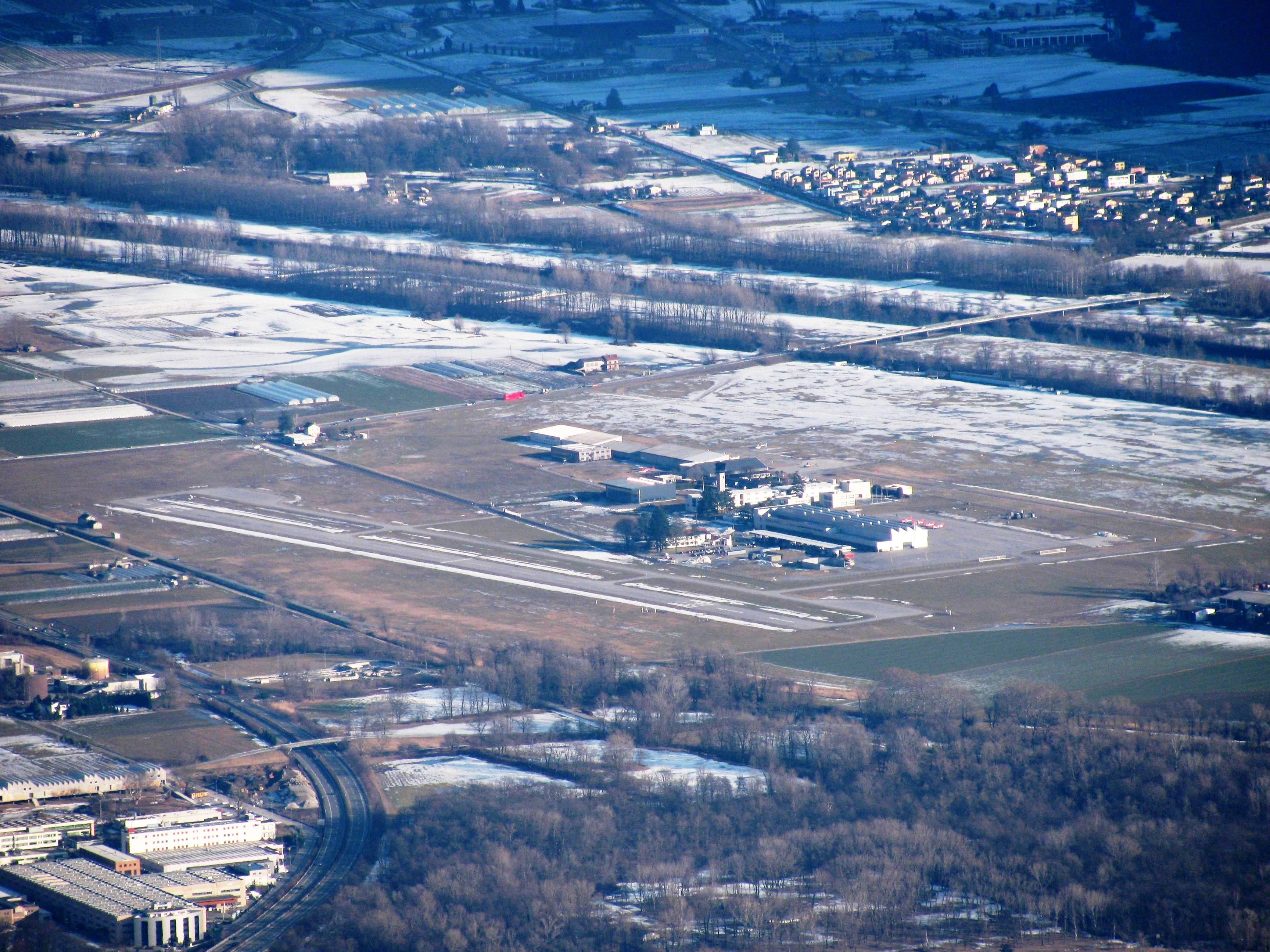 airport of Locarno photographed from north-west in winter